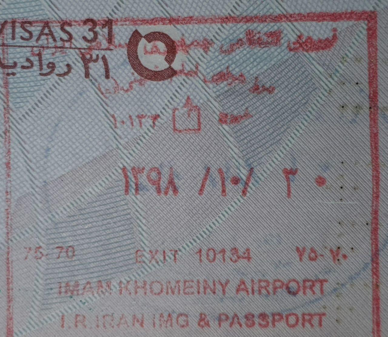 Iran exit stamp at IKIA